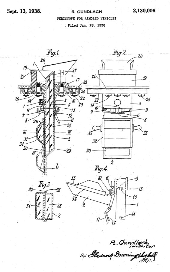 Gundlach periscope 360°